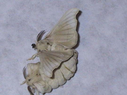 Bombycoidea